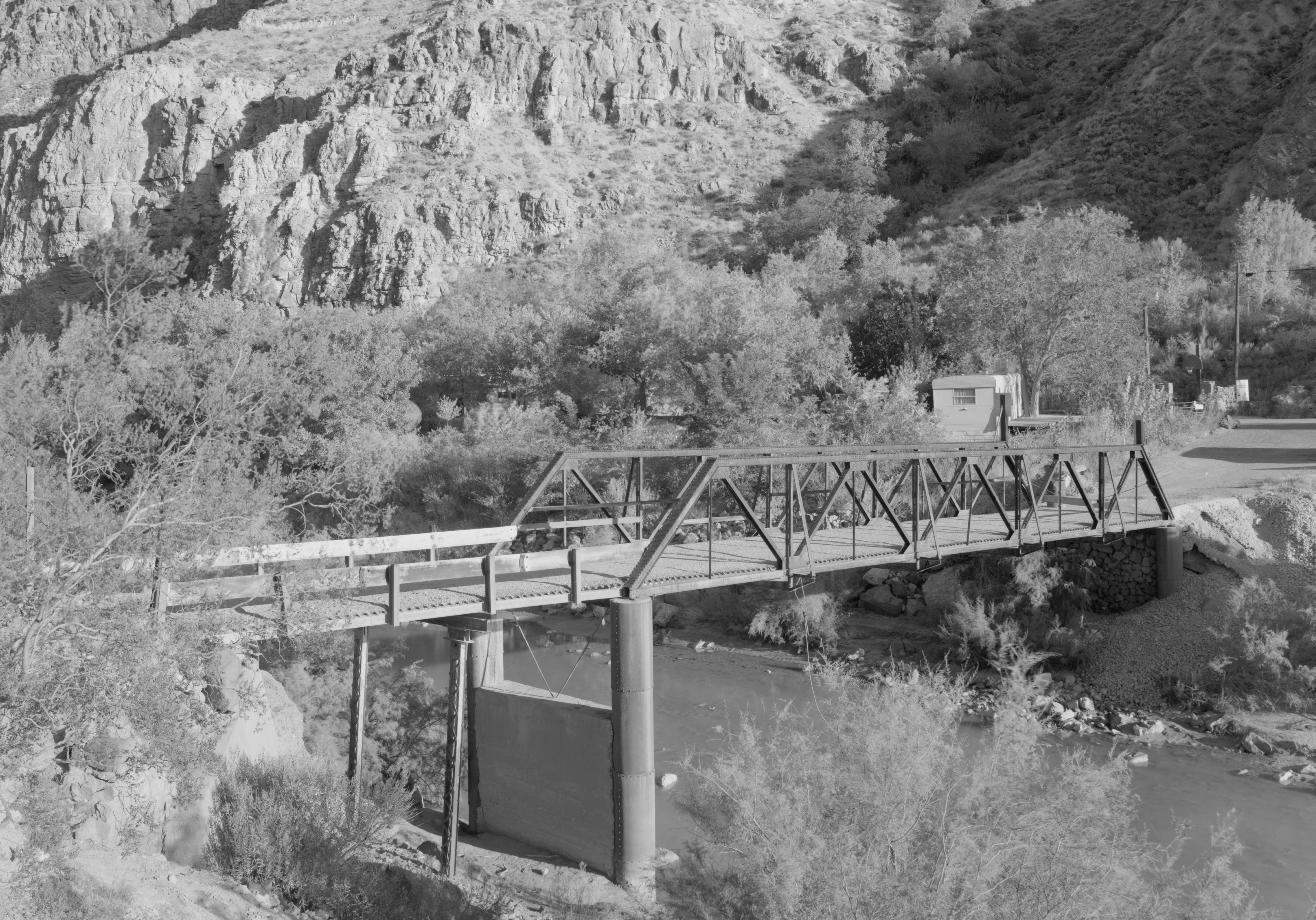 Western side of the Hurricane-LaVerkin Bridge, which spans the Virgin River near Hurricane, Utah, United States. Built in 1908, the pony truss bridge is listed on the National Register of Historic Places.